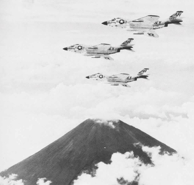 Three McDonnell F-3B Demon fighters flying past Mt. Fuji, Japan, in 1964. These aircraft were assigned to fighter squadron VF-161 Chargers, Attack Carrier Air Wing 16 (CVW-16), aboard the U.S. aircraft carrier USS Oriskany (CVA-34) on their last deployment to the Western Pacific from 1 August 1963 to 10 March 1964. VF-161 was the last fighter squadron that flew the Demon, it then converted to the McDonnell F-4B Phantom II.